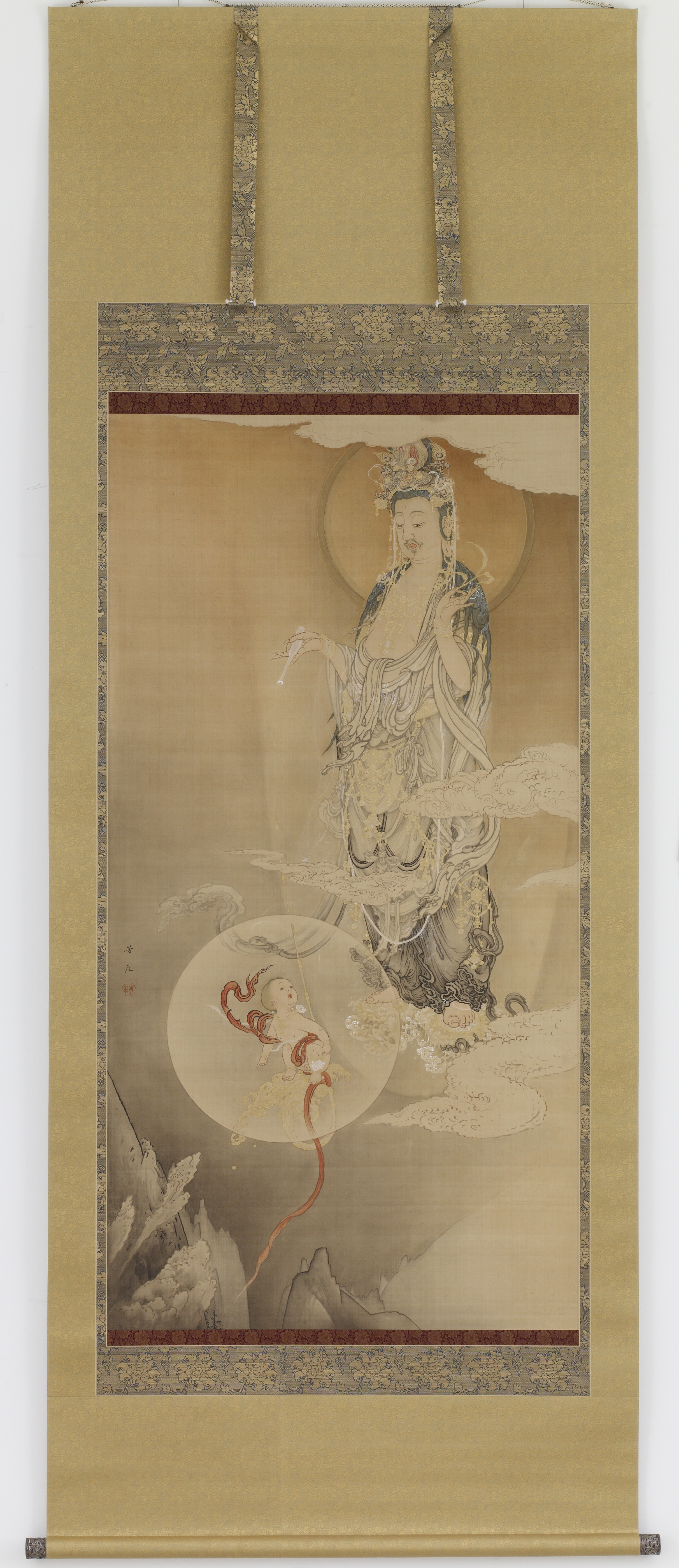 (Artist) Kanō Hōgai; Japan; Meiji Era, 1883; Ink, color and gold on silk; Gift of Charles Lang Freer, and previously owned by Siegfried Bing, Ernest Francisco Fenellosa, and Charles Lang Freer.